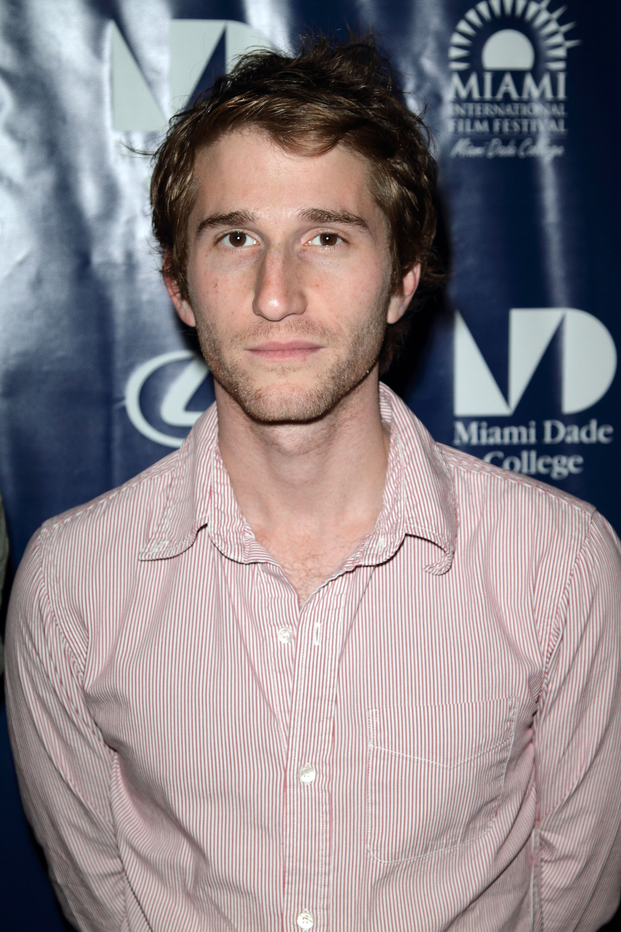 Director Max Winkler at the 2011 Miami International Film Festival showing of Ceremony , GUsman 3-07-2011